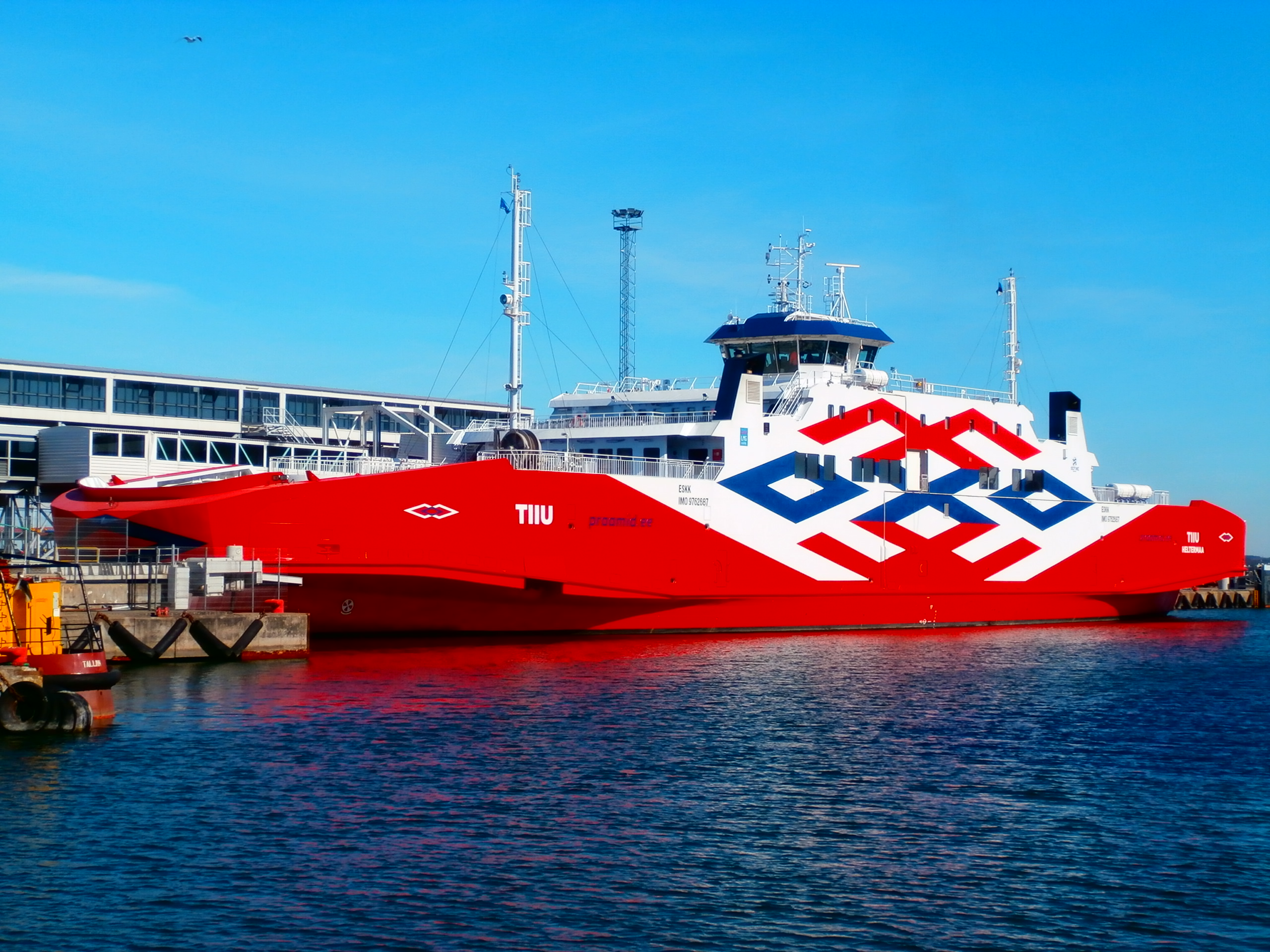 Tiiu at quay 10 in Port of Tallinn 4 April 2017 (Piiber at quay 9 on the left)